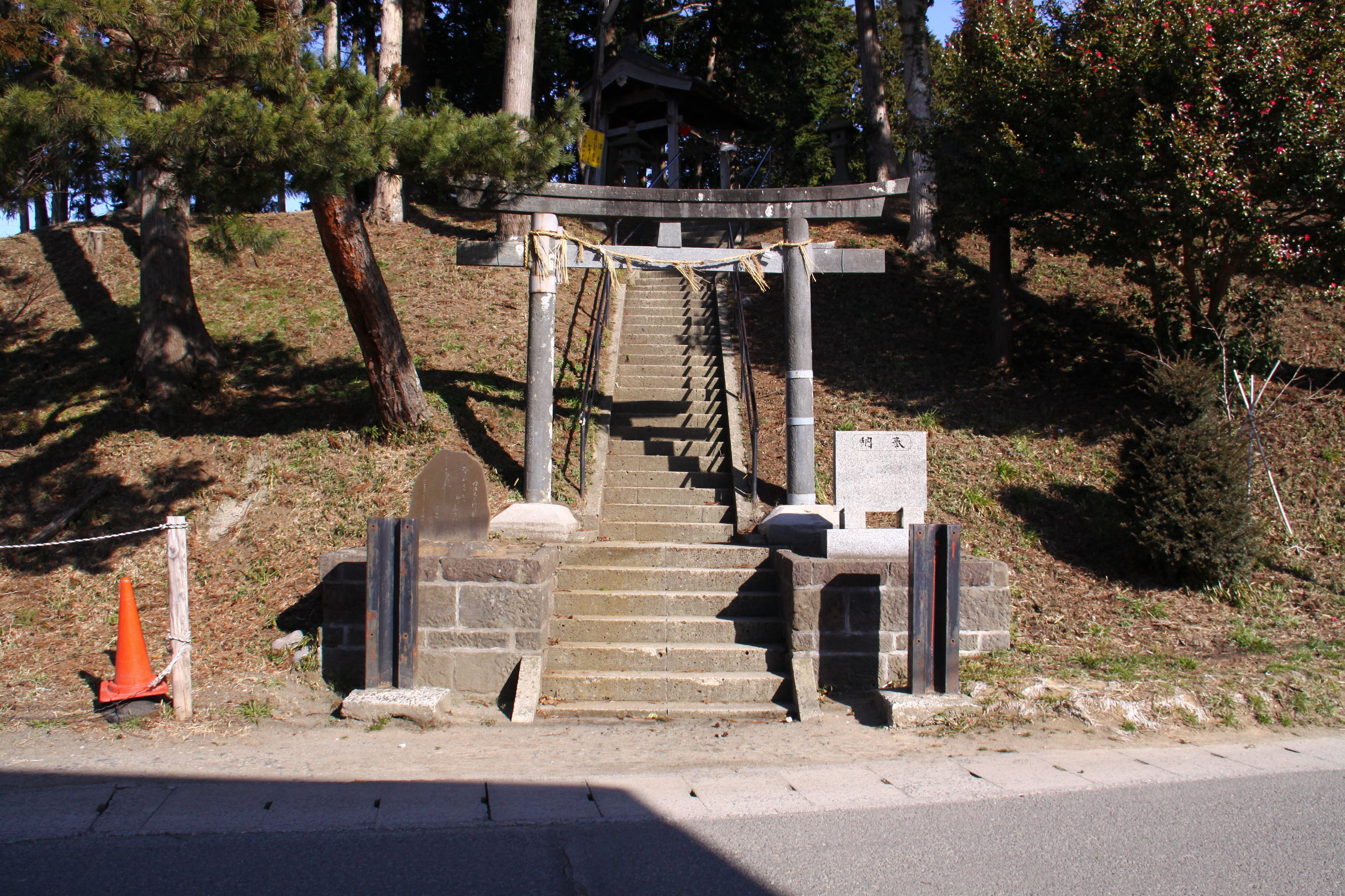 Ukishima jinja Gate